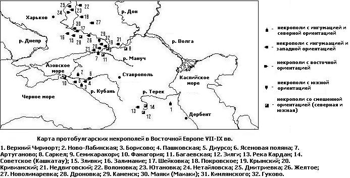 Bulgars necropoleis, VII-IX cc.